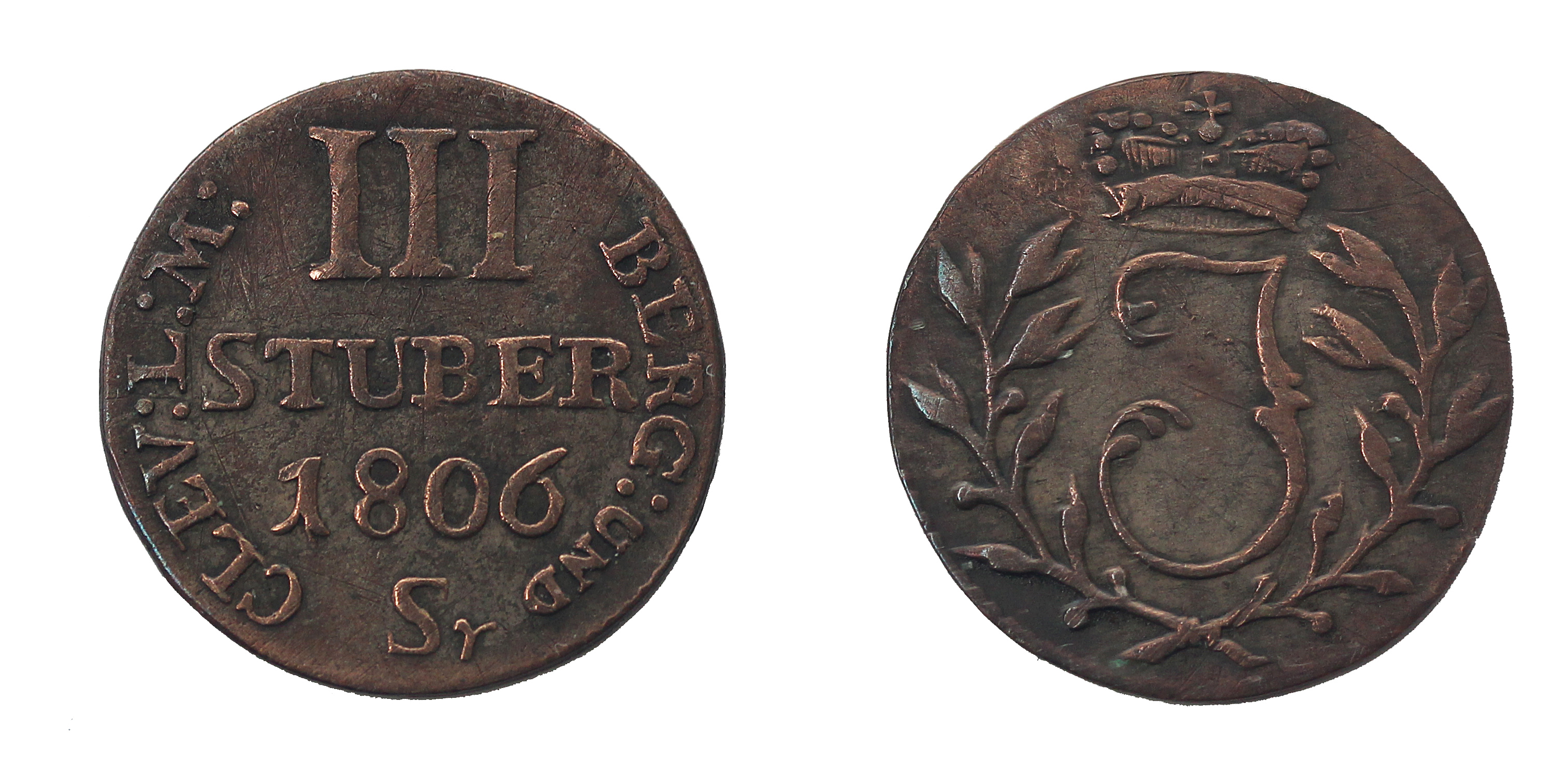 3 Stüber. Grand Duchy of Berg (1806). AKS 12